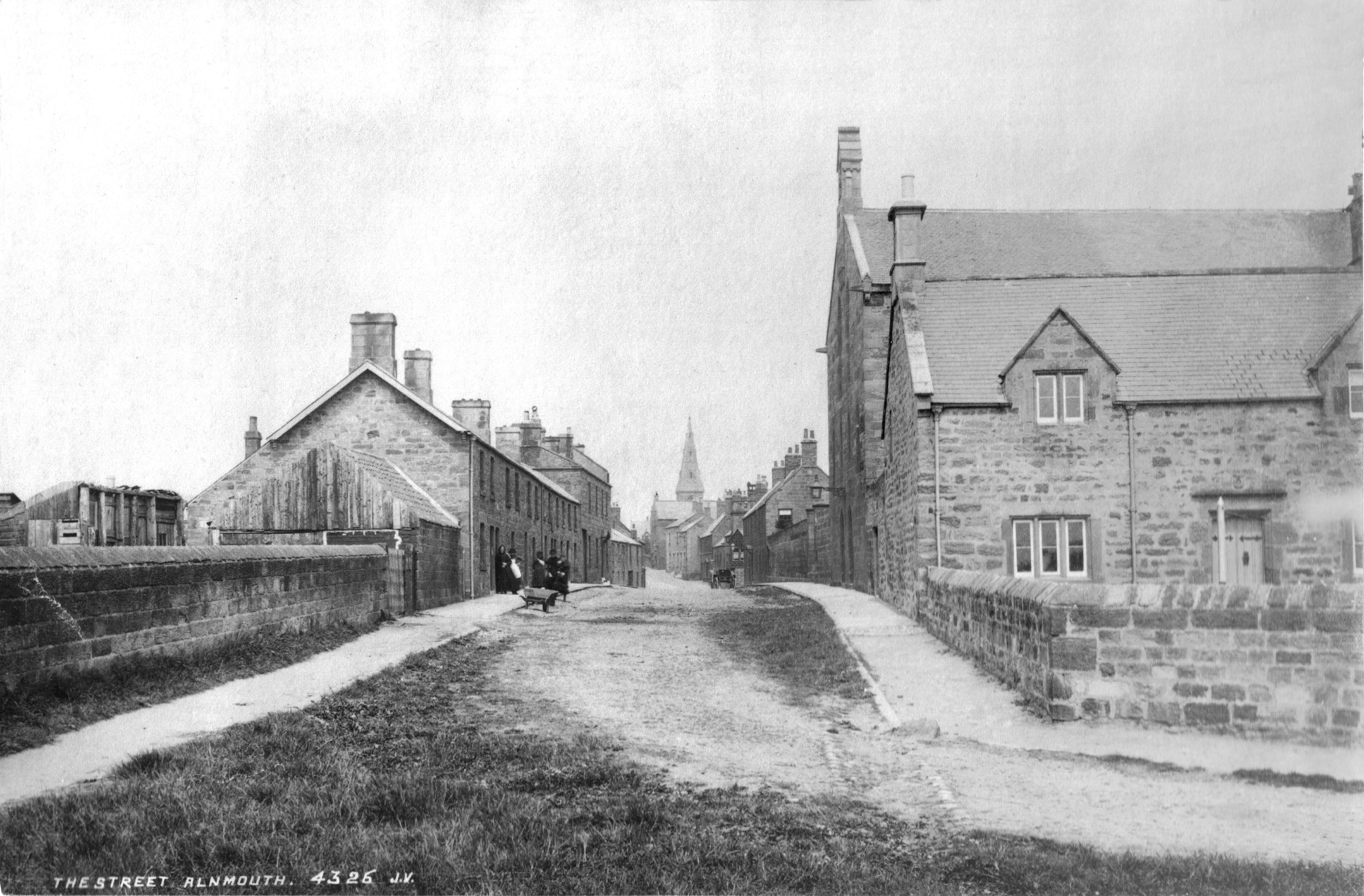 Northumberland Street in Alnmouth, Northumberland, England. One of three photographs on albumen paper, quite pale, processed for clarity.